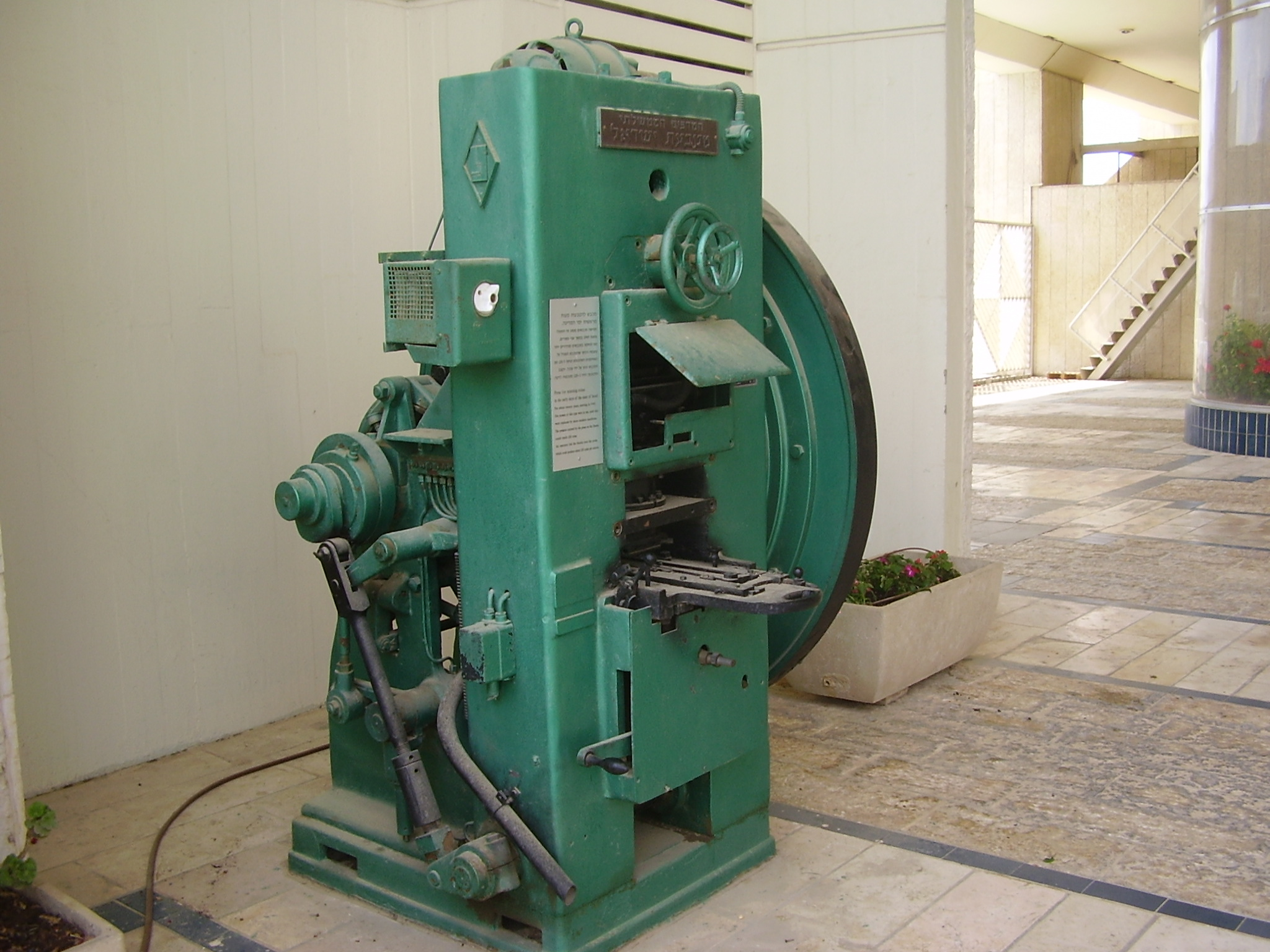 Press for minting coins in israel bank